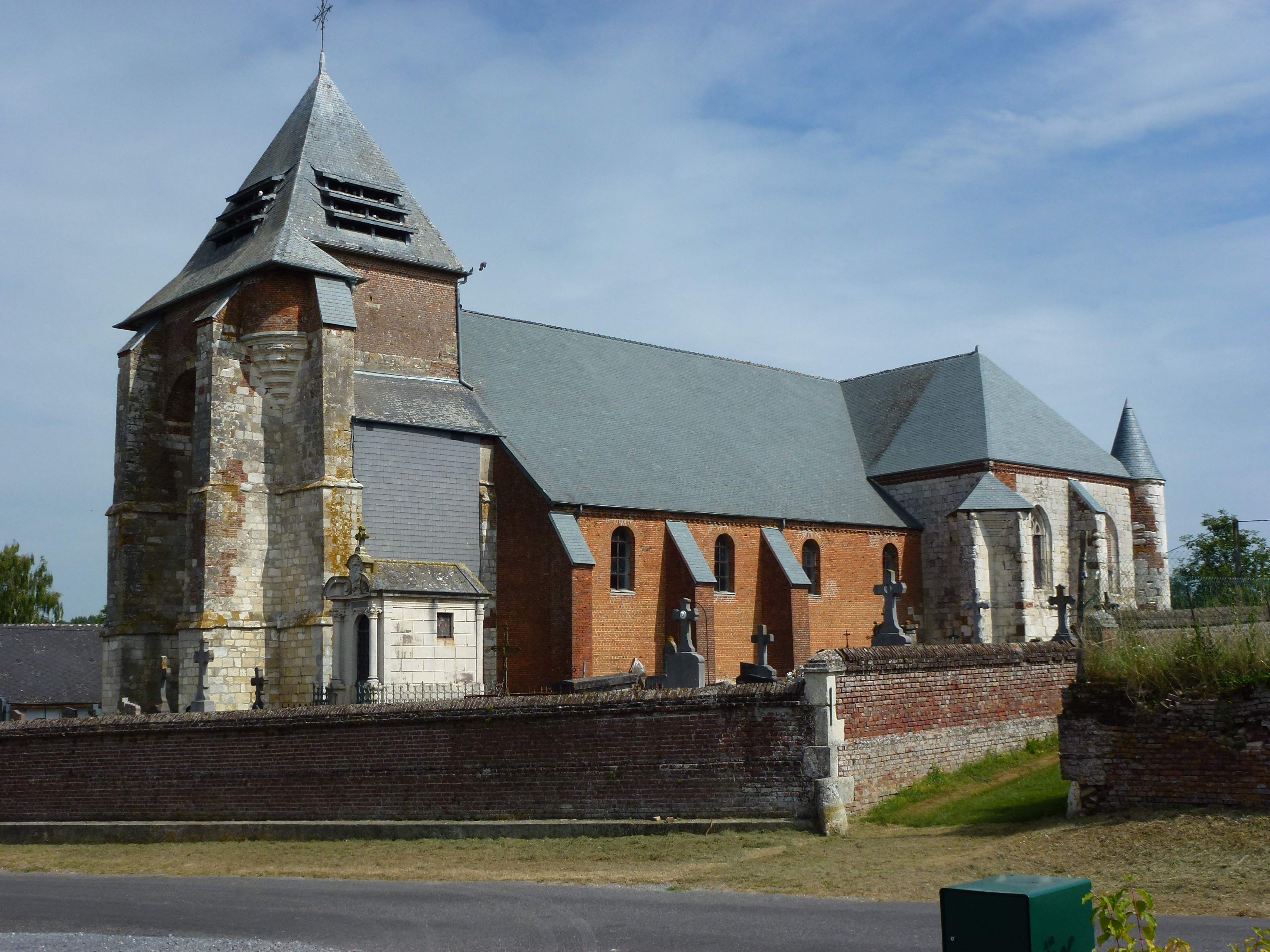 Fraillicourt (Ardennes) Église Notre-Dame, vue du sud-ouest